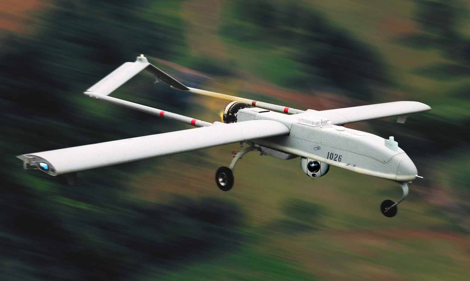 The RQ-7B, or the Shadow 200, is the type of unmanned aerial vehicle flown by VMU-3. The squadron will be activated at the Combat Center in September.